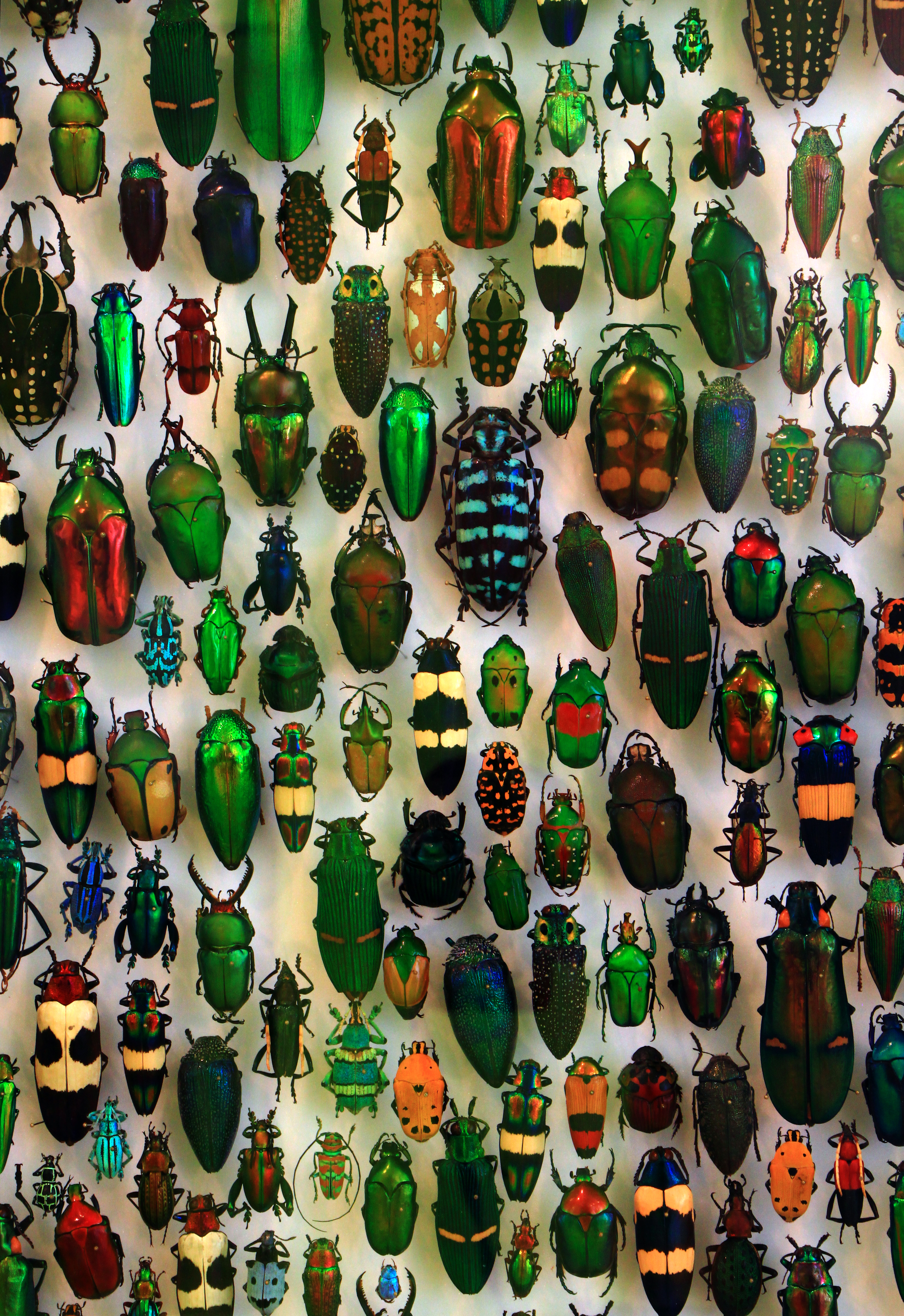 Variability in beetles; Staatliches Museum für Naturkunde Karlsruhe, Germany.